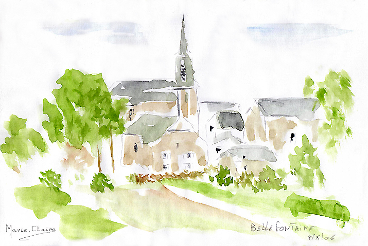 Bellefontaine (Belgium), the little ardenne village.